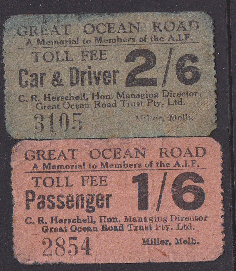 Tickets paying the toll on the Great Ocean Road, Victoria, Australia circa 1930